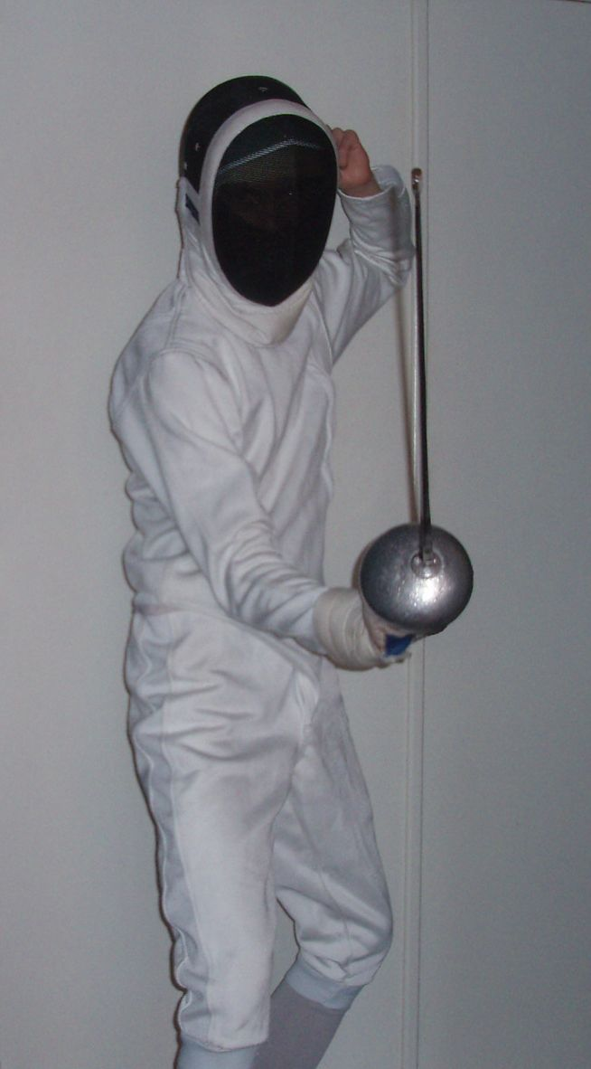 (low) Fifth position in Fencing (Quinte), used (but rarely) in épée and foil